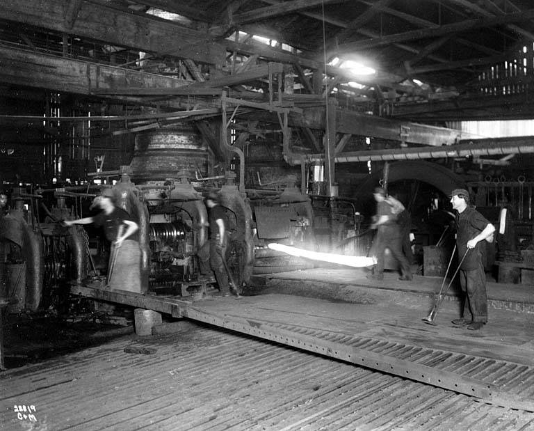 Subjects (LCTGM): Metalworking--Washington (State)--Irondale Subjects (LCSH): Pacific Steel Company (Irondale, Wash.)